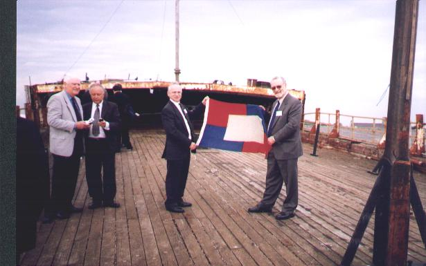 Delegates of the 2001 Conference convened by HRH Duke of Edinburgh on board 'City of Adelaide'